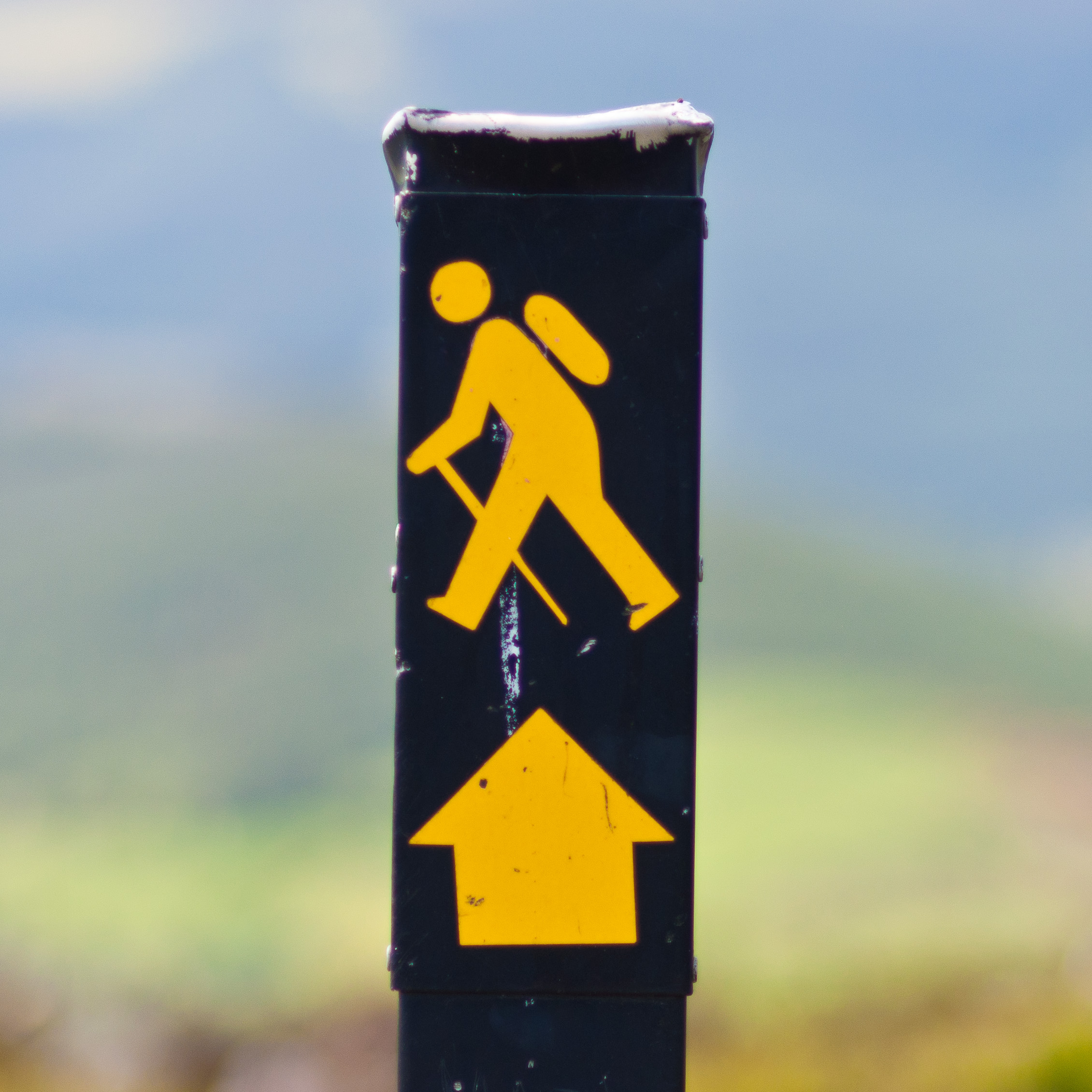 Waymarking sign, comprising an image of a walking man and a directional arrow in yellow, used in Ireland to denote a National Waymarked Trail. The design was copied from the symbol used to waymark the Ulster Way in Northern Ireland and has since become the standard waymarking image used for long-distance trails in the Republic of Ireland.